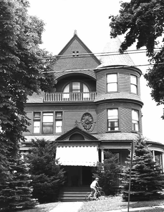 Image of the Sackville House ca. 1976, a historic building which was demolished in 1980